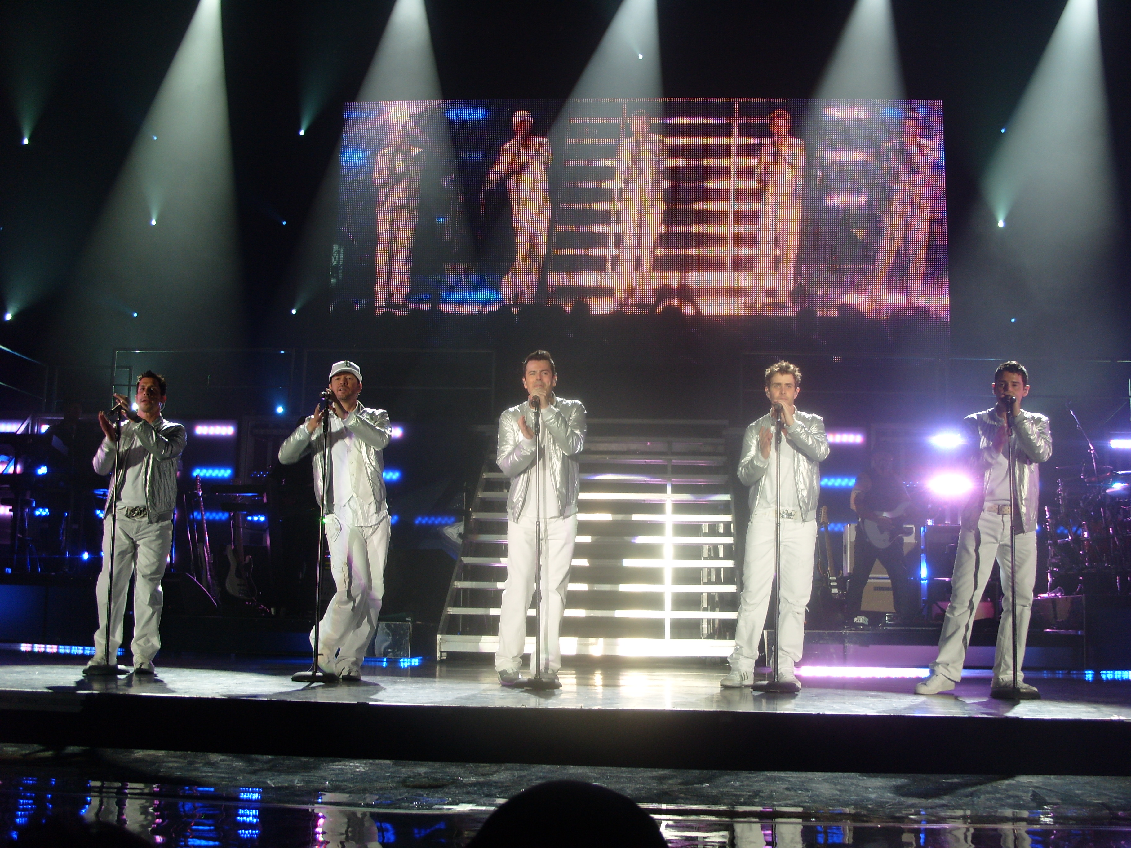 New Kids on the Block Concert January 2009